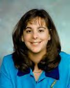 Monserrate Román, a.k.a. "Monsi", is a Puerto Rican scientist AT NASA who helped build the International Space Station. She is the Chief Microbiologist for the Environmental Control and Life Support System project, and determines how microbes will behave under different situations and in different locations, such as the nooks and crannies of the Space Station.